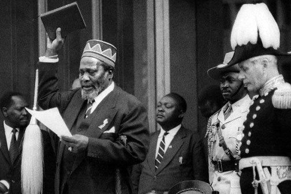 This image shows Jomo Kenyatta taking oath of office in 1 June 1963